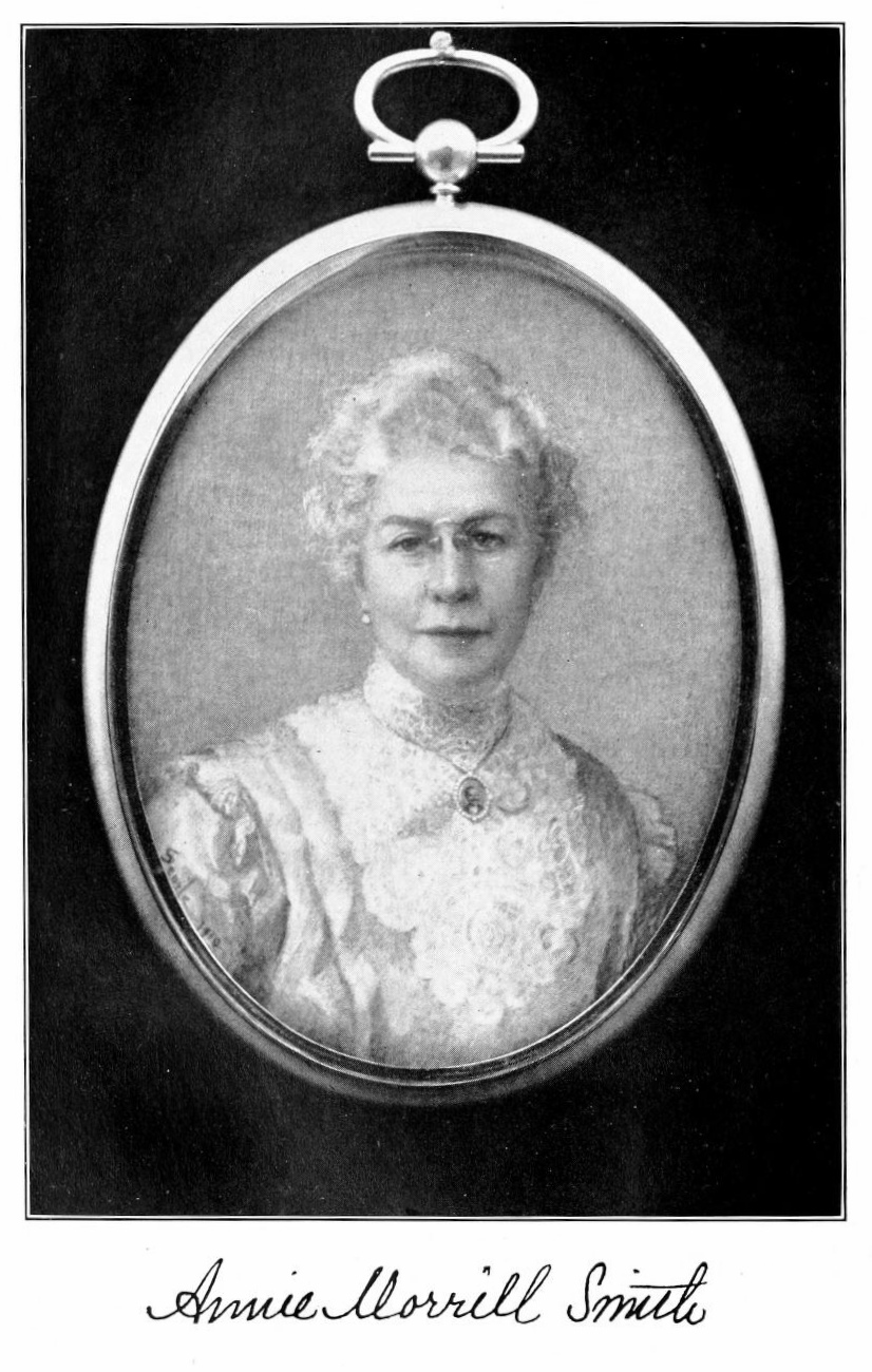 painting of Annie Morrill Smith (1856 - 1946)